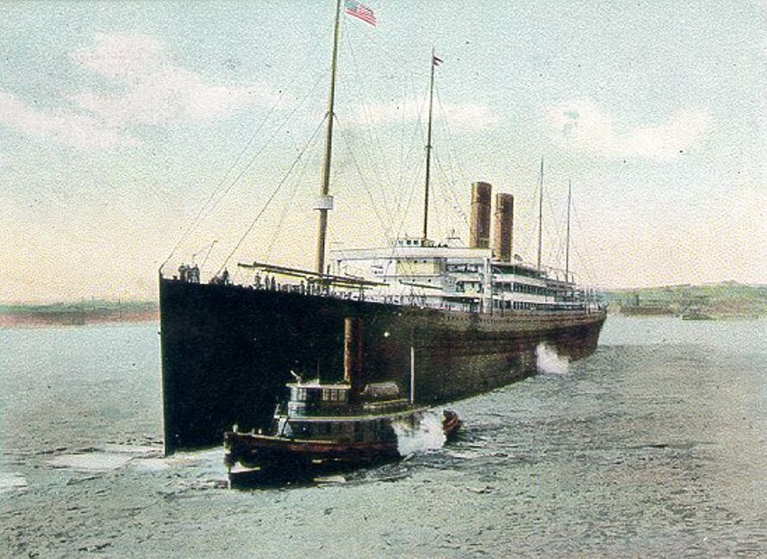 RMS Celtic in an old postcard